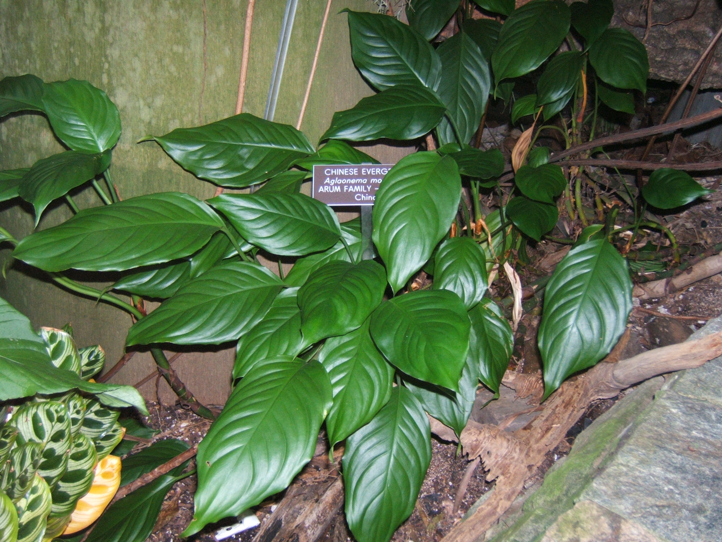 Aglaonema modestum at the US Botanical Garden